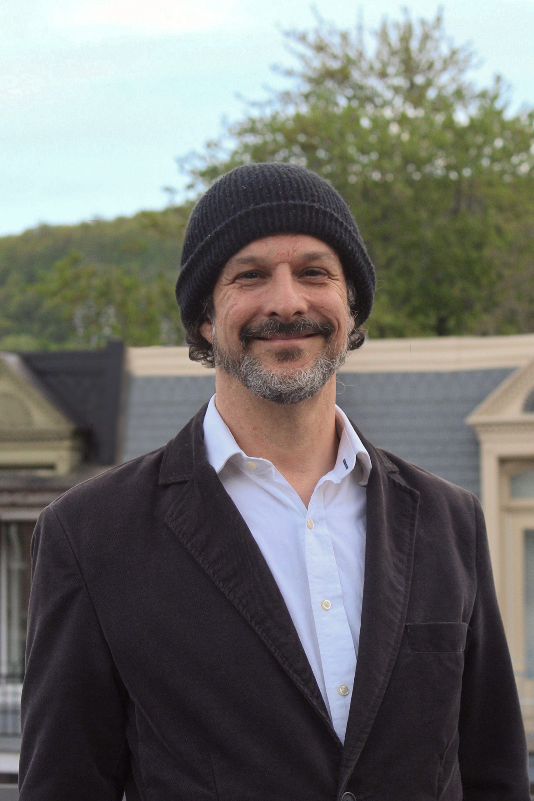 Profile picture